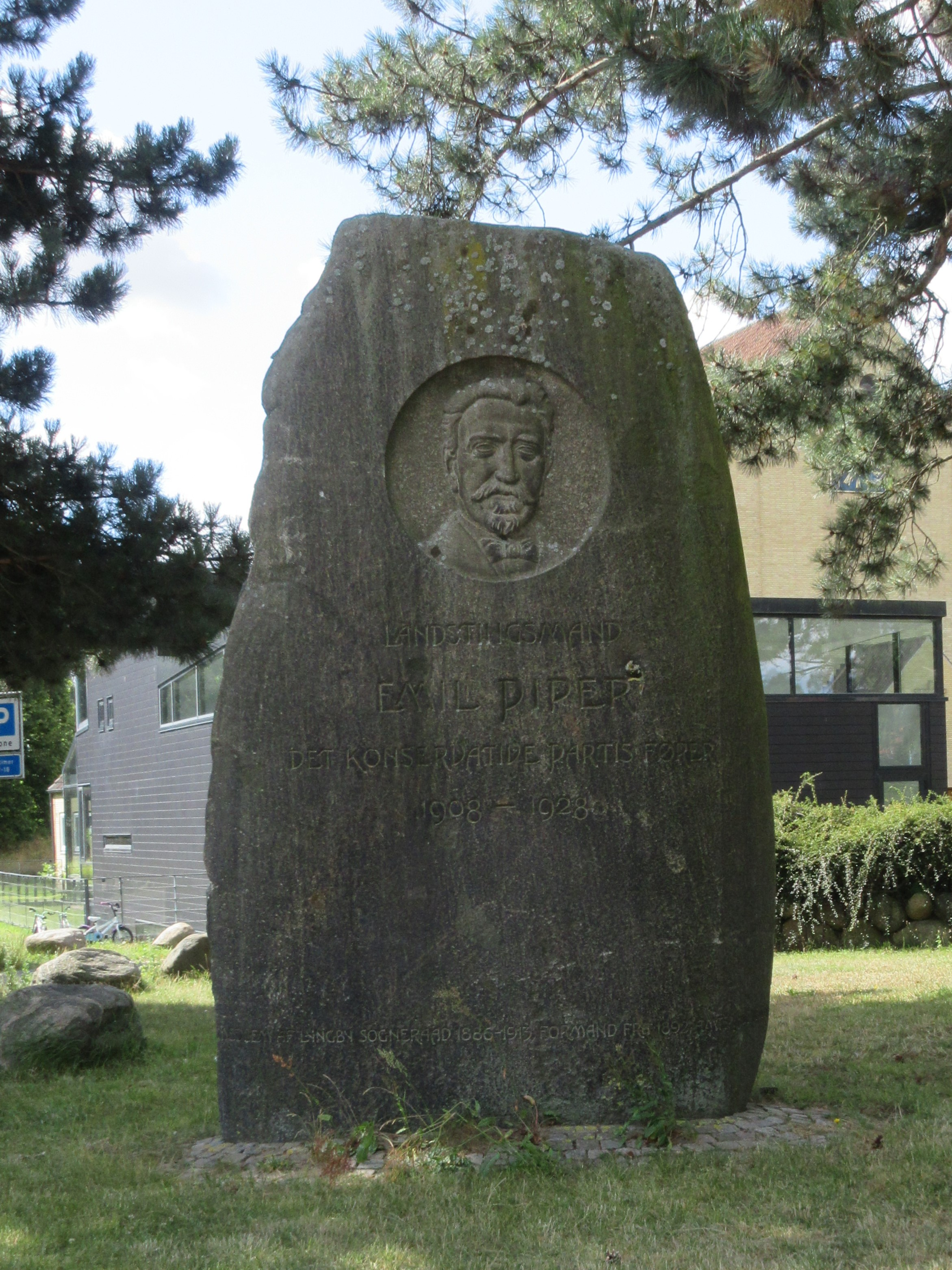 Emil Piper Memorial at Hummeltoftevej in Sorgenfri, Copenhagen, Denmark